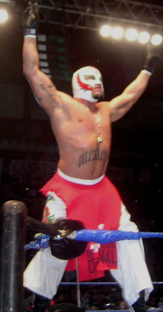 Rey Mysterio on WWE Wrestle Mania Revenge Tour in Bologna (Italy)